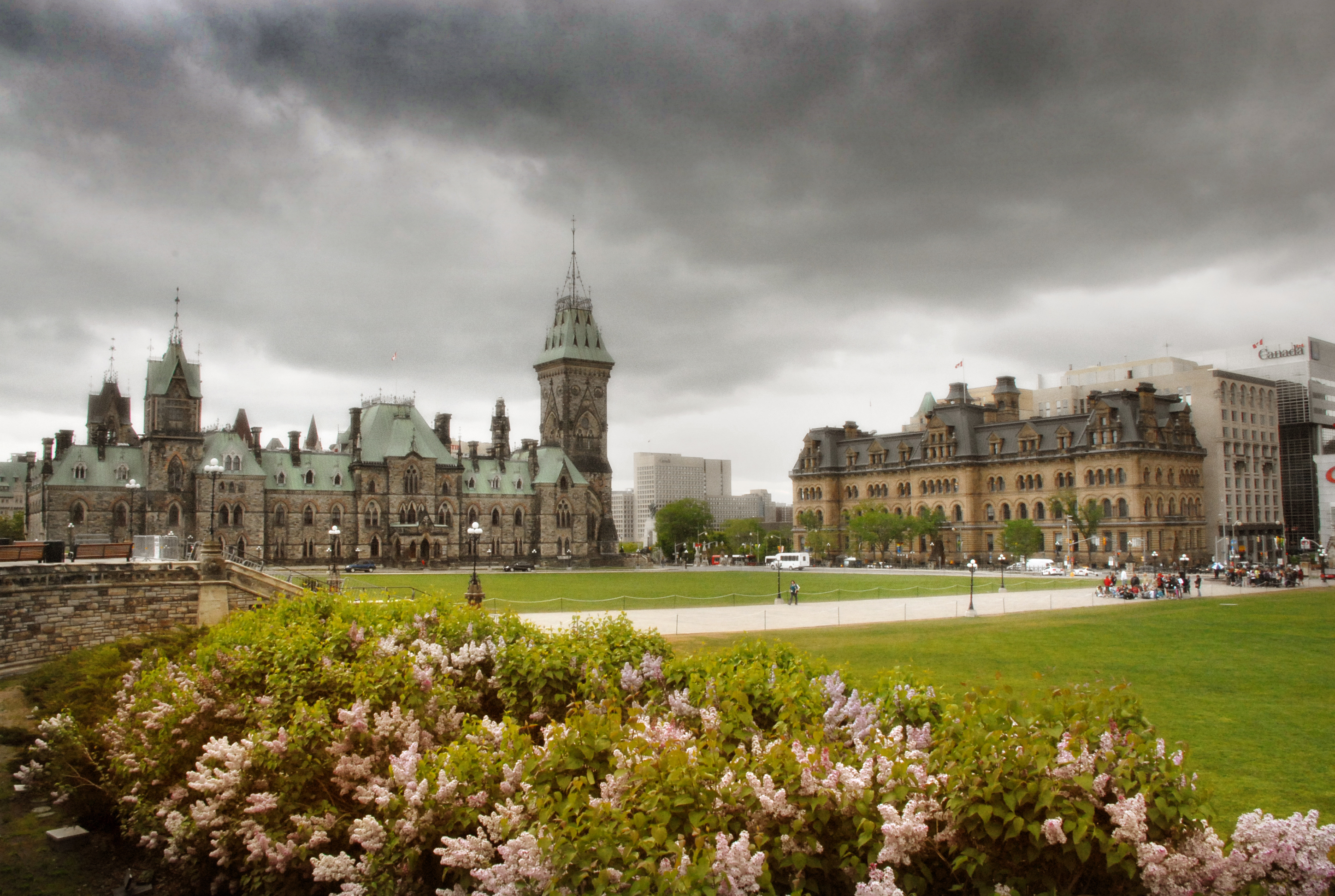 The East Block on Parliament Hill (left) where Sir John A. Macdonald and Sir George-Étienne Cartier had their offices in the early days of Canada.